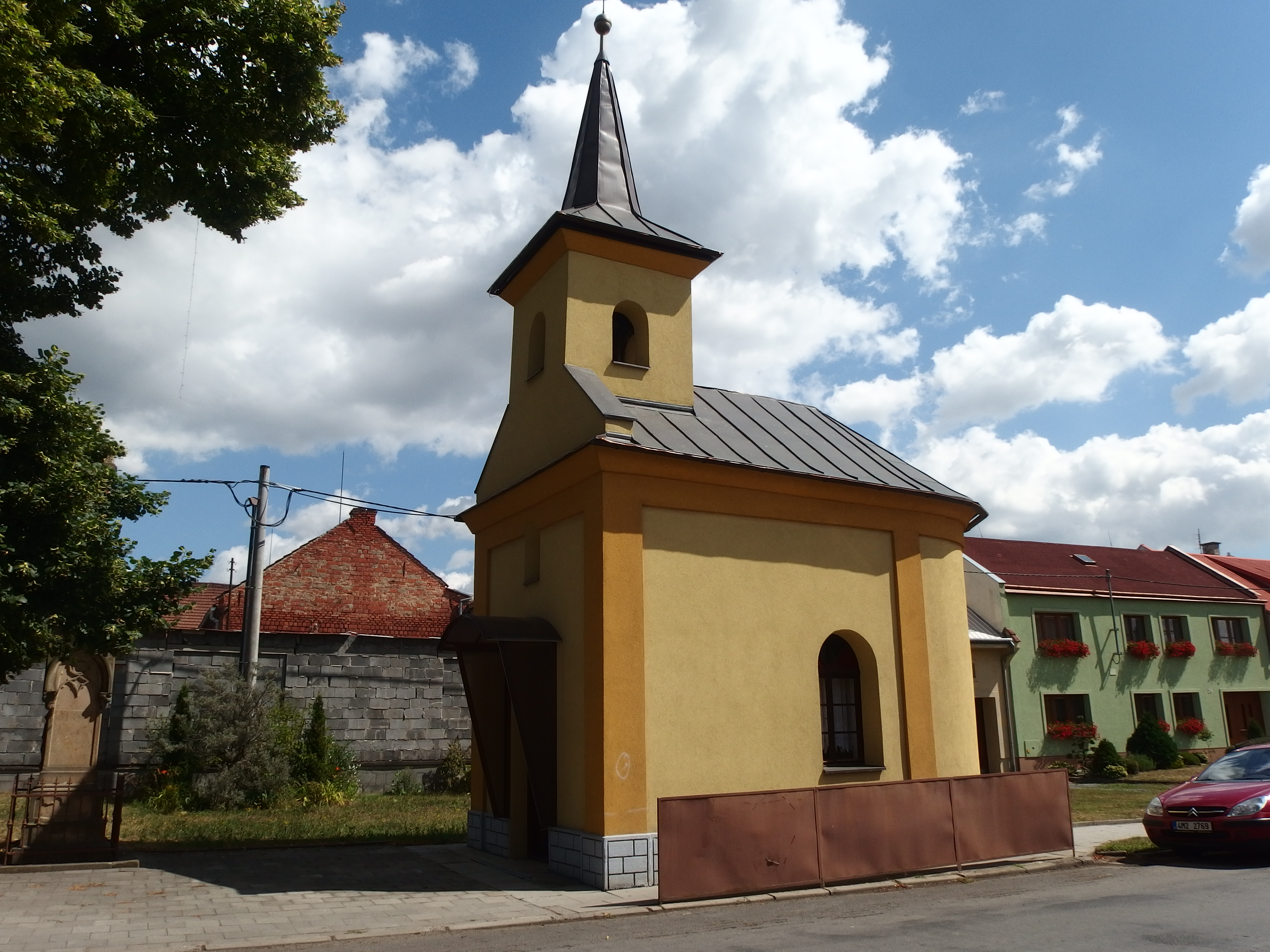 Želatovice, Přerov District, Czech Republic.